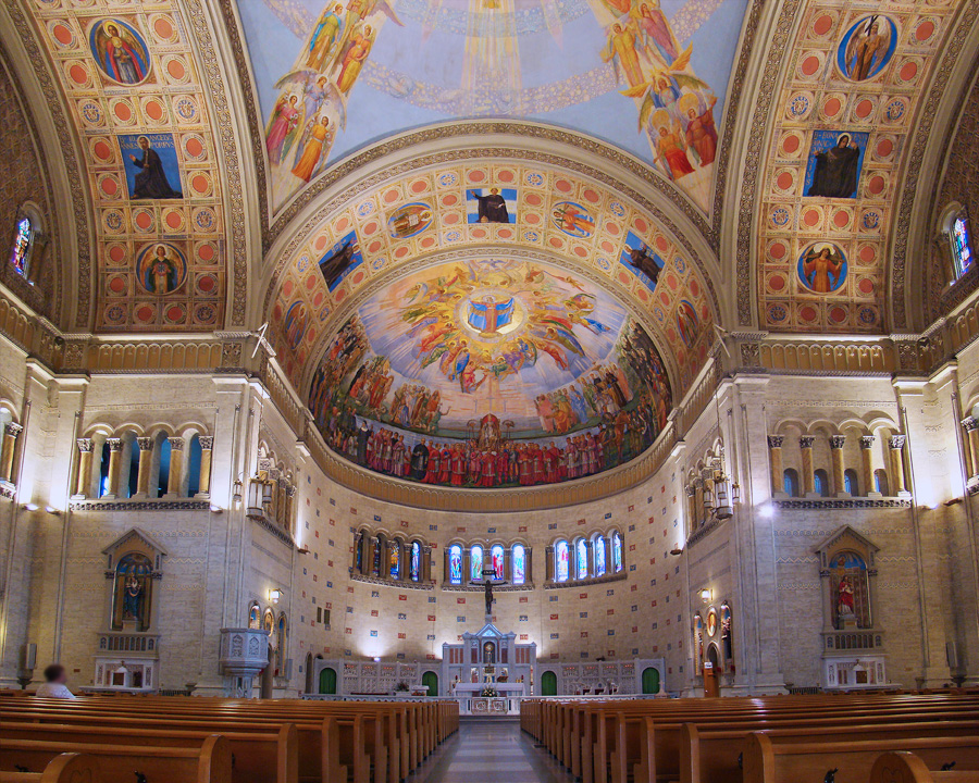 Church of the Madonna della Difesa, Montreal, Quebec, Canada. The interior.